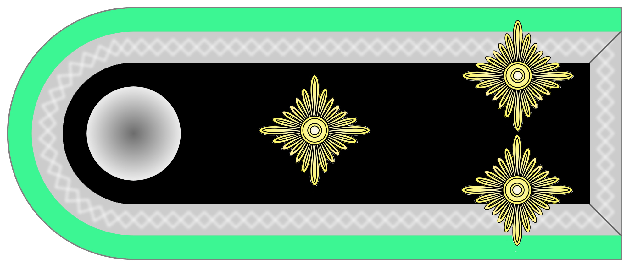 Rang insignia shoulder strap, here SS-Sturmscharfuehrer of the Schutzstaffel until 1945, corps colour “poison green” of the „Sicherheitsdienst des Reichsführers-SS“.